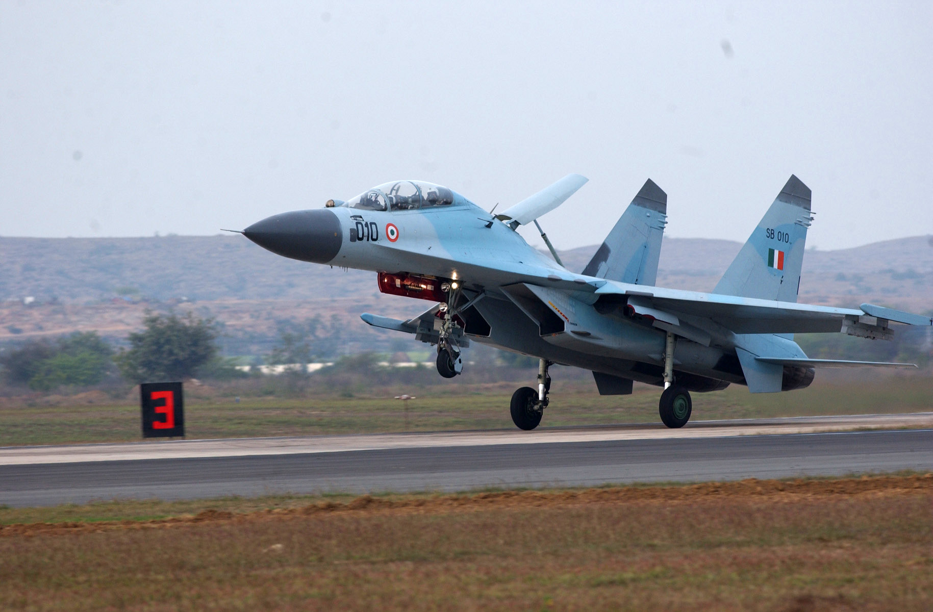 GWALIOR AIR FORCE STATION -- An Indian air force SU-30K Flanker lands here following a simulated combat mission with U.S. Air Force F-15 Eagles deployed from Elmendorf Air Force Base, Alaska. About 150 U.S. airmen are here supporting Cope India '04, the first bilateral fighter exercise between the two air forces in more than 40 years.